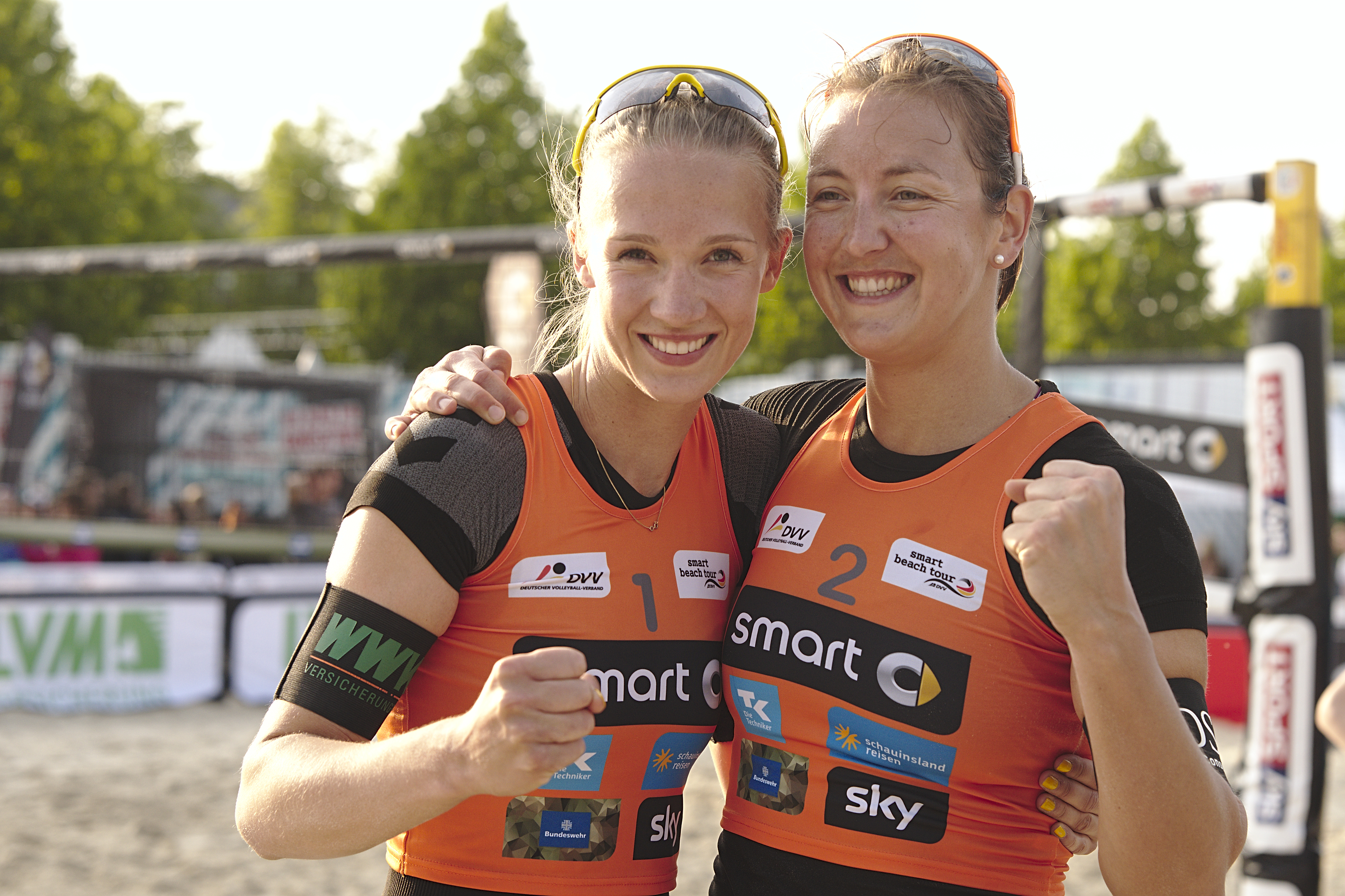 The German beach volleyball players Sandra Ittlinger (left) and Teresa Mersmann (right) at the Smart Beach Tour tournament in Münster 2017.